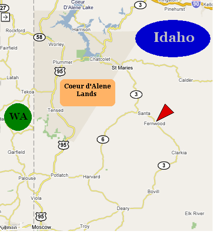 Robbie Love Giles Map of North Idaho with Fernwood highlighted Created 3-16-2007